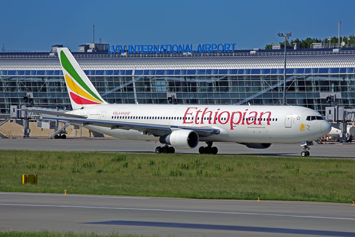 Ethiopian Airlines Boeing 767-300ER (ET-AMG) at Lviv International Airport